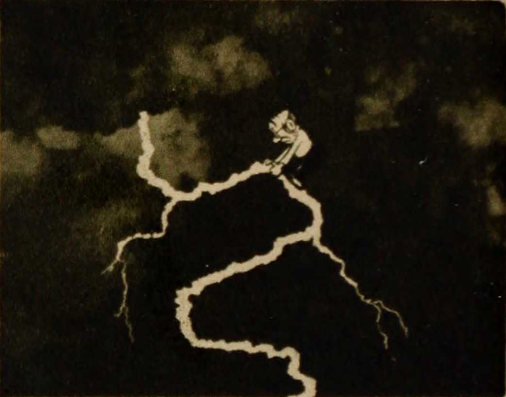 Colonel Heeza Liar's Treasure Island, still 3